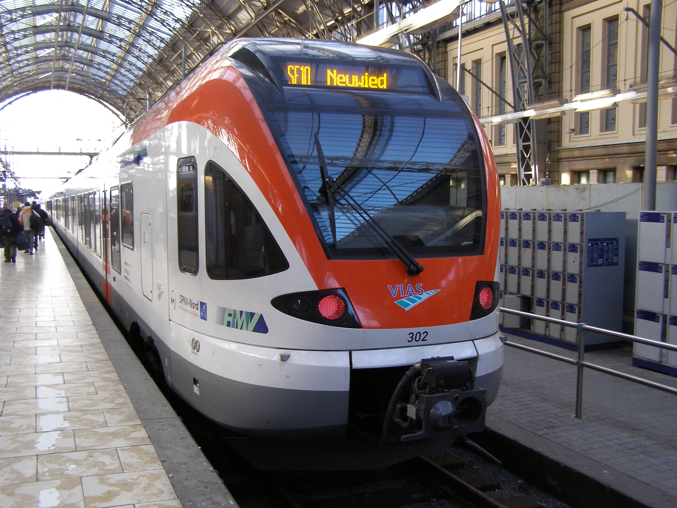 Frankfurt (Main) Hbf. - Flirt VIAS 302 train to Neuwied (route SE10)